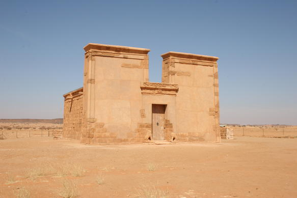 Tempel of Musawwarat